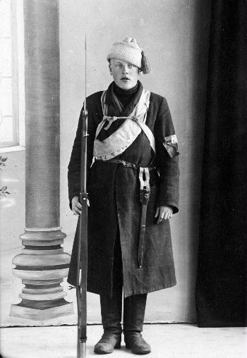 Finnish civil war red soldiers